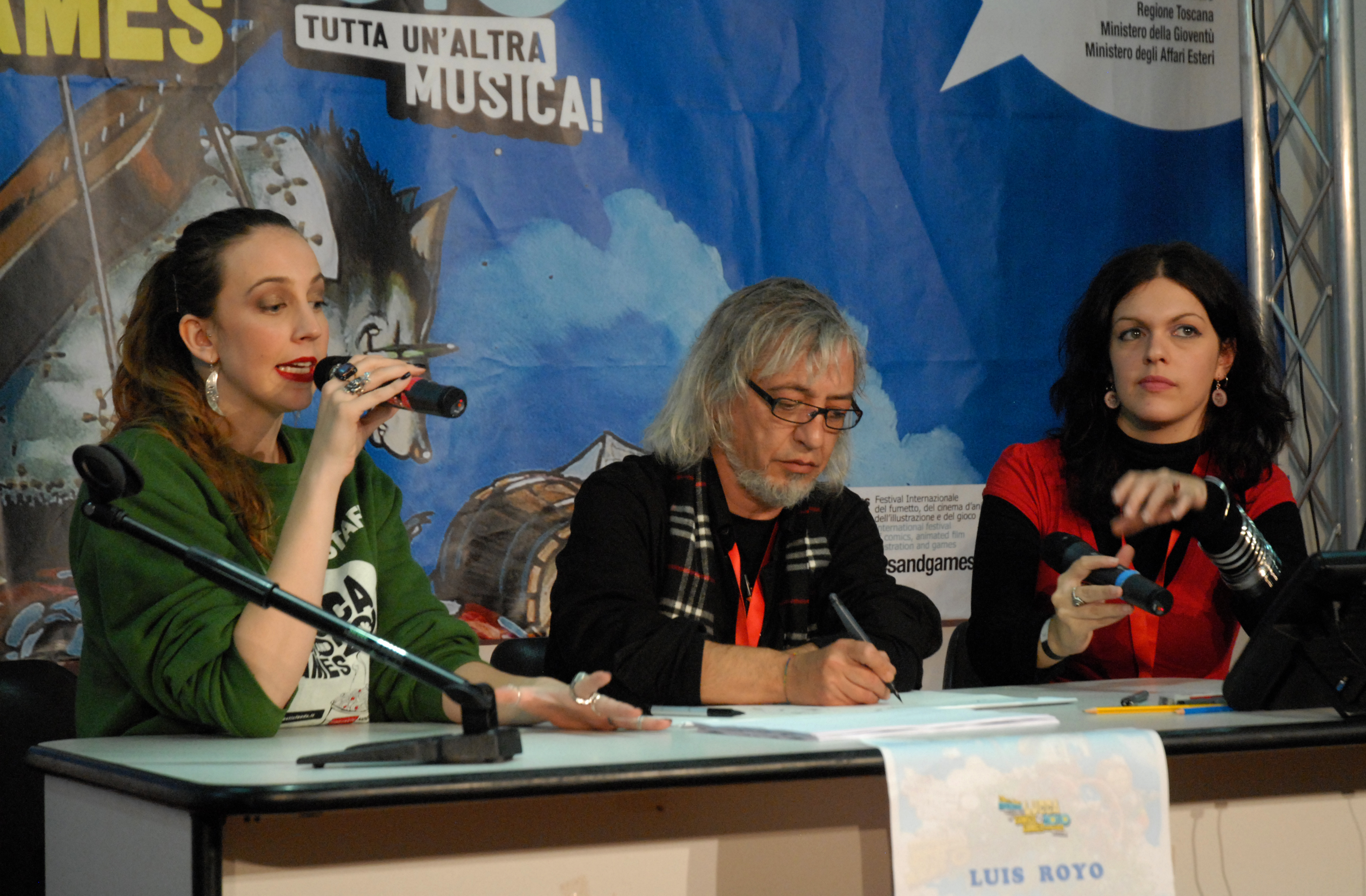 Luis Royo Photo taken during Lucca Comics&Games 2010